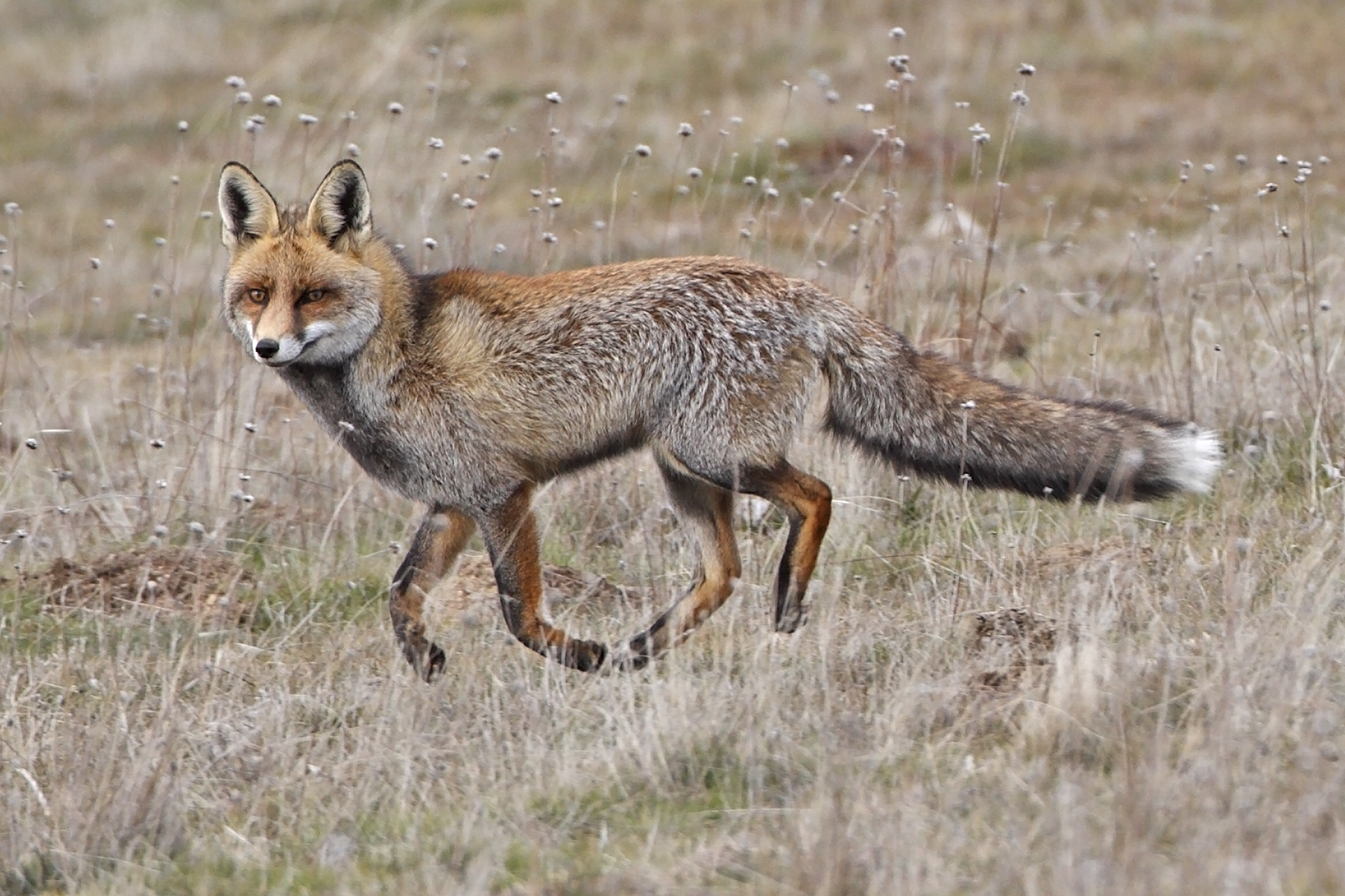 Red Fox